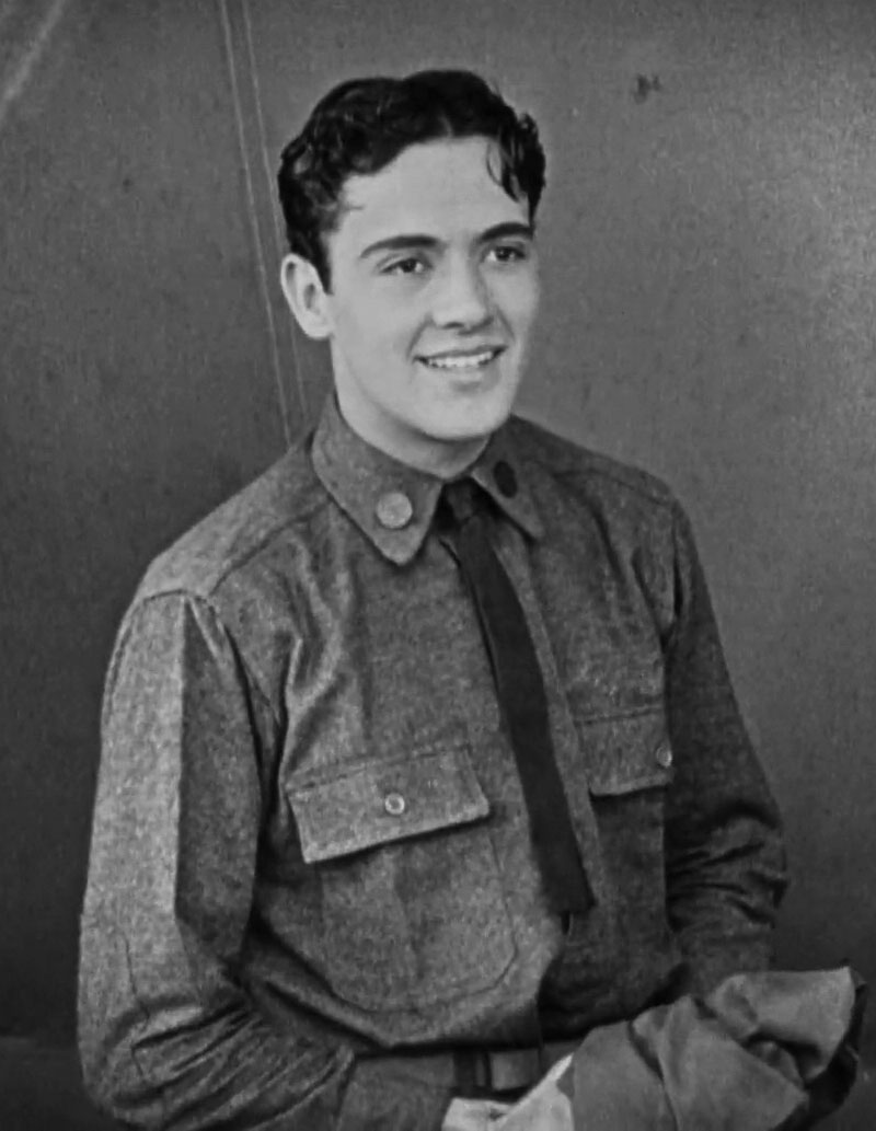 Cropped screenshot of Charles "Buddy" Rogers from the film Wings